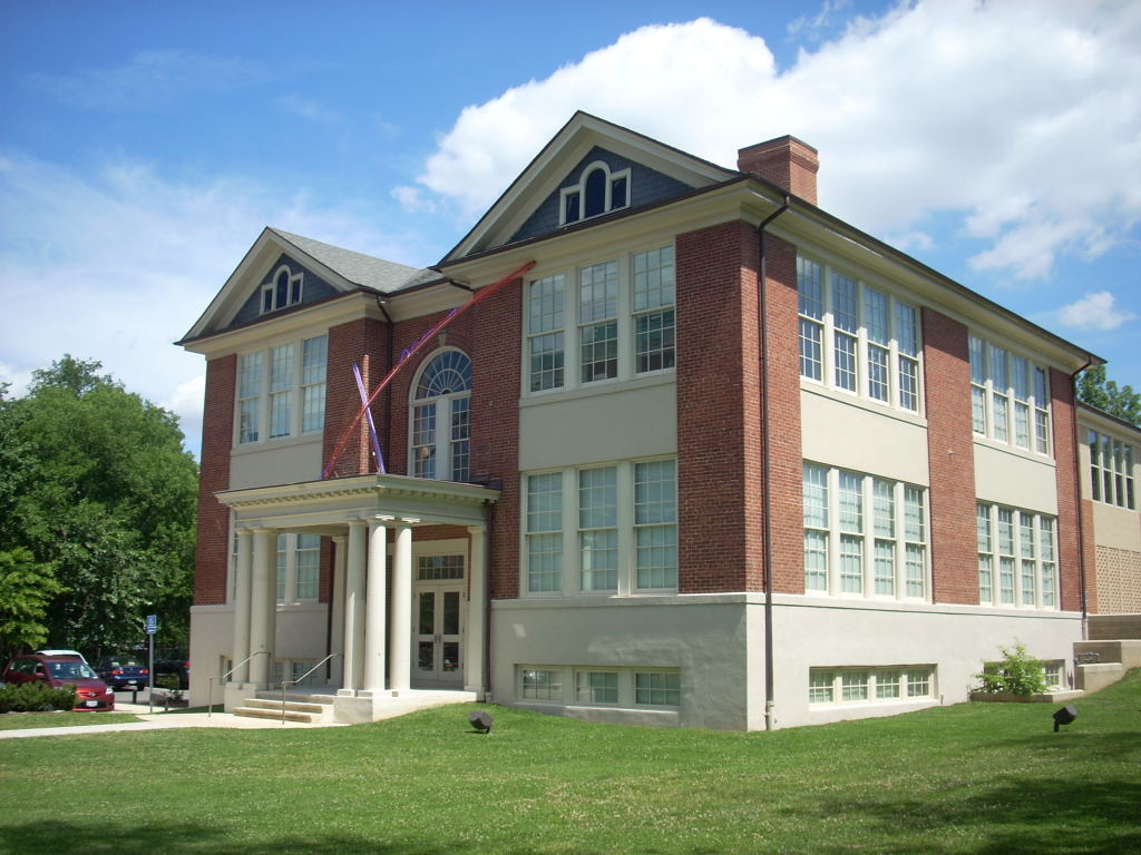 Arlington Arts Center, 3550 Wilson Blvd (Arlington, Virginia) Formerly Clarendon School, later Matthew Maury Elementary School NRHP